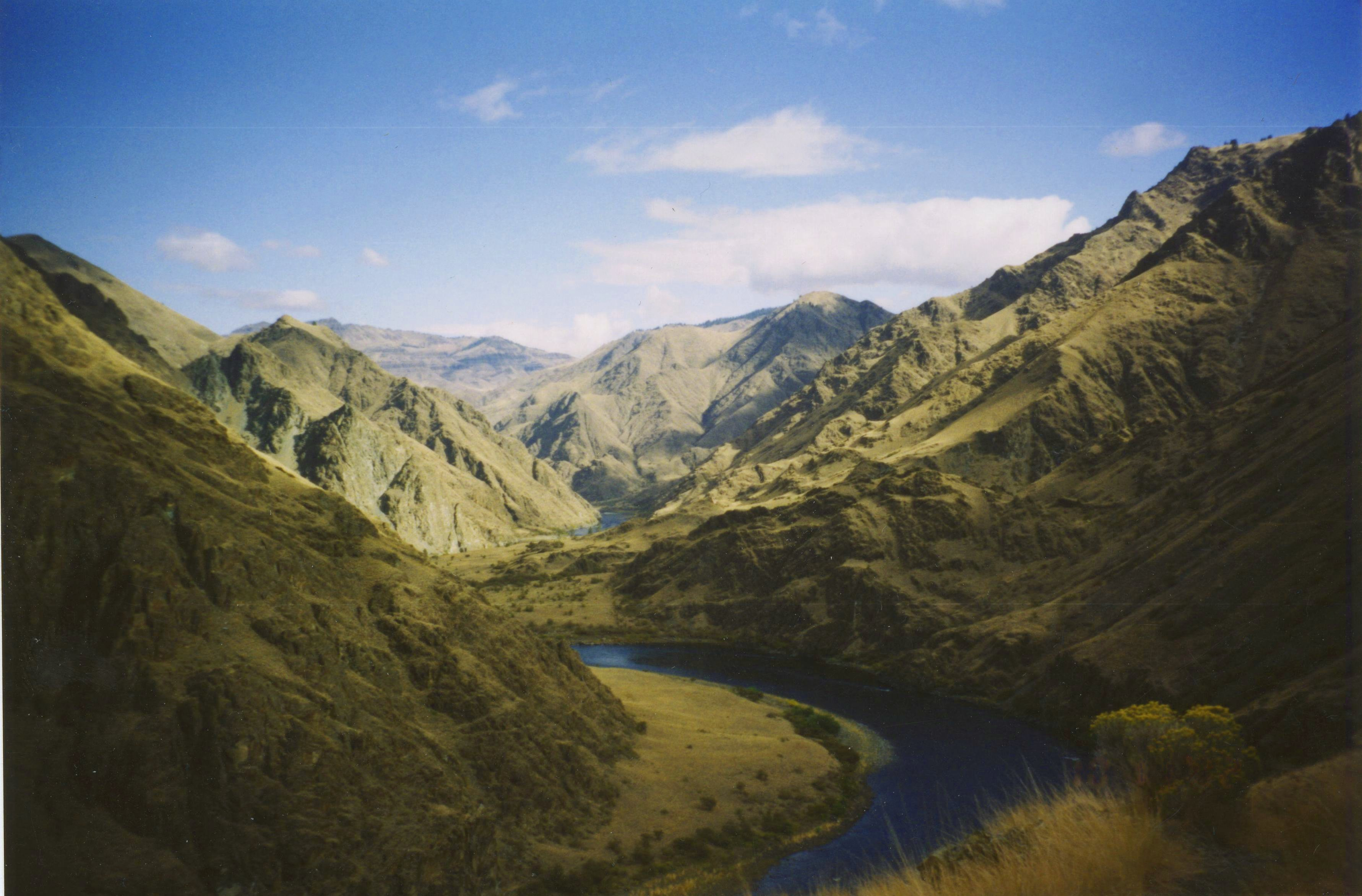 Picture of the Snake River winding through Hells Canyon. Photo was taken somewhere between Kirkwood Historic Ranch and Pittsburg Landing, Oregon.